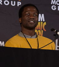 Humans (TV series) panel at MCM London Comic Con